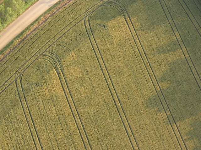 Crop markings - Hop Farm, Beltring. Taken from a balloon on a trip by my Mum.